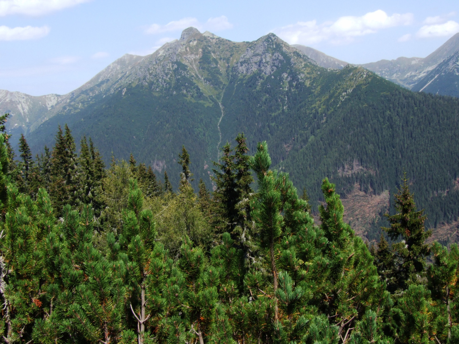 Otargańce (West Tatra Mountains)